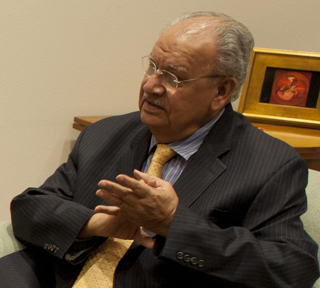 Deputy Secretary of Defense Ashton B. Carter meets with former Indian Ambassador to the U.S. Naresh Chandra in Delhi, India, on July 23, 2012. India is the fifth stop for Carter in a 10-day Asia-Pacific trip with stops in Hawaii, Guam, Japan, Thailand, and South Korea.